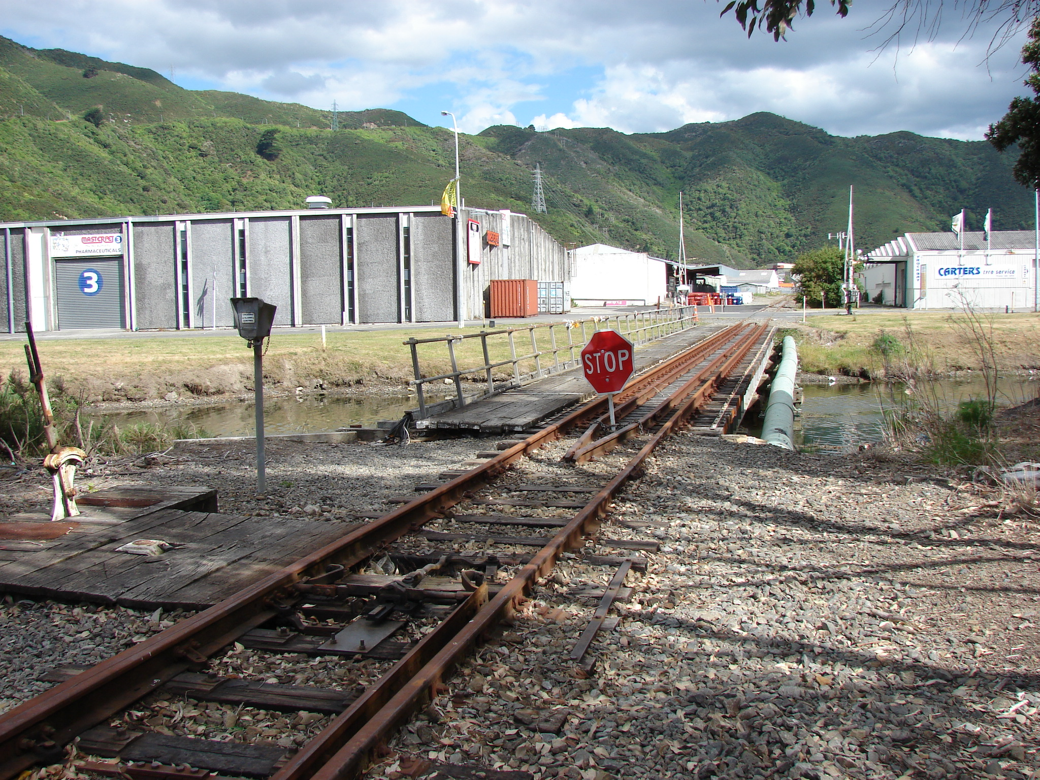 All Trains Stop. A sign marks the end of operations on the Gracefield Branch line, just before the Parkside Road level crossing. Photographed by Matthew25187 on 2007-12-22.